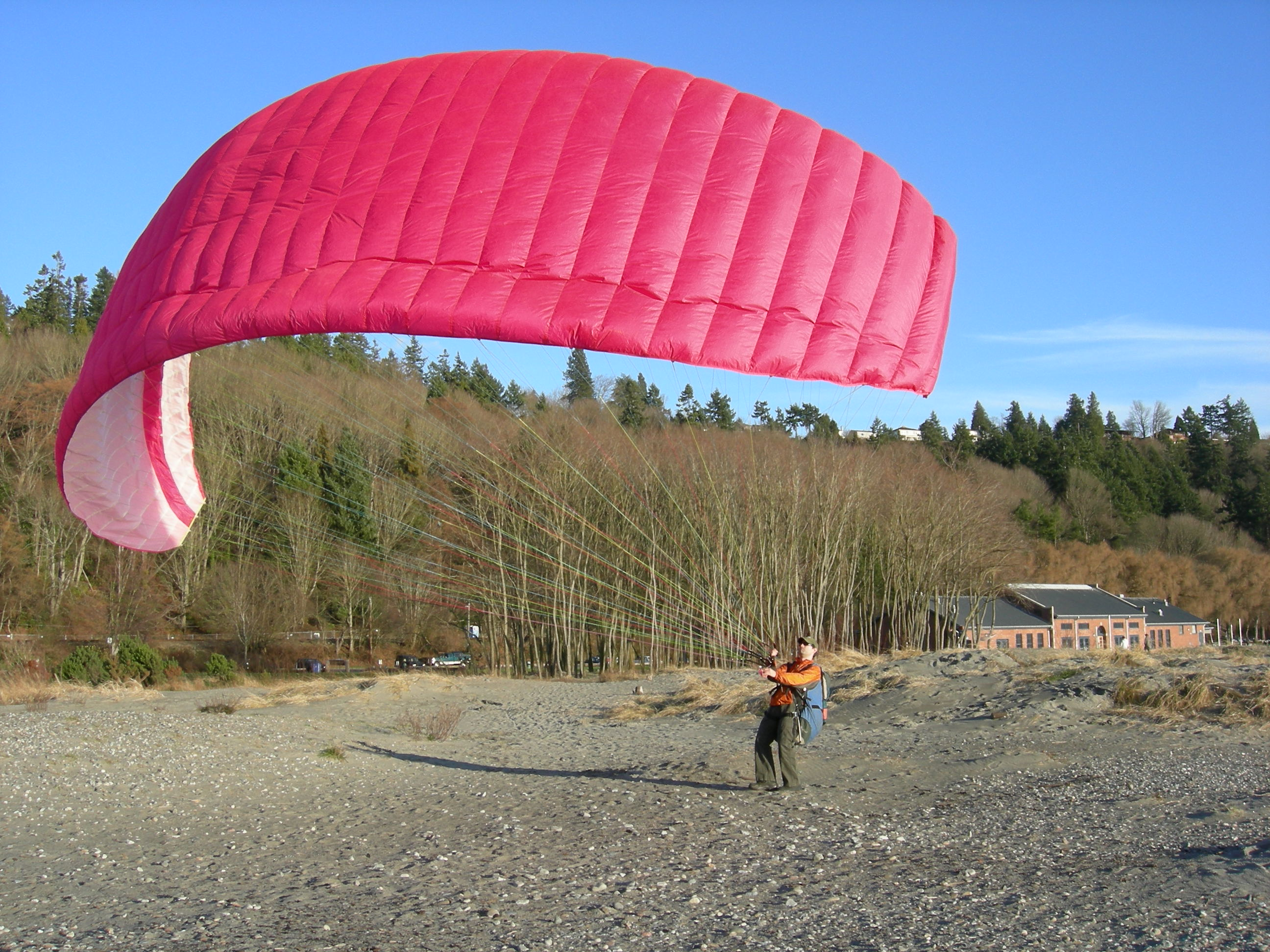 A paraglider practices his technique, utilizing the winter winds in the dunes near the shore of Golden Gardens Park, Ballard, Seattle, Washington. Trying to raise the sail.